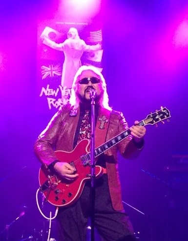 ミュージシャン矢口壹琅